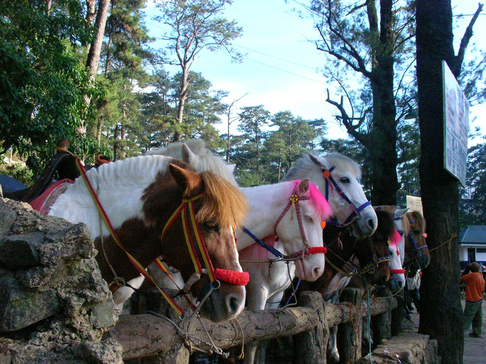 Horses in baguio, philippines